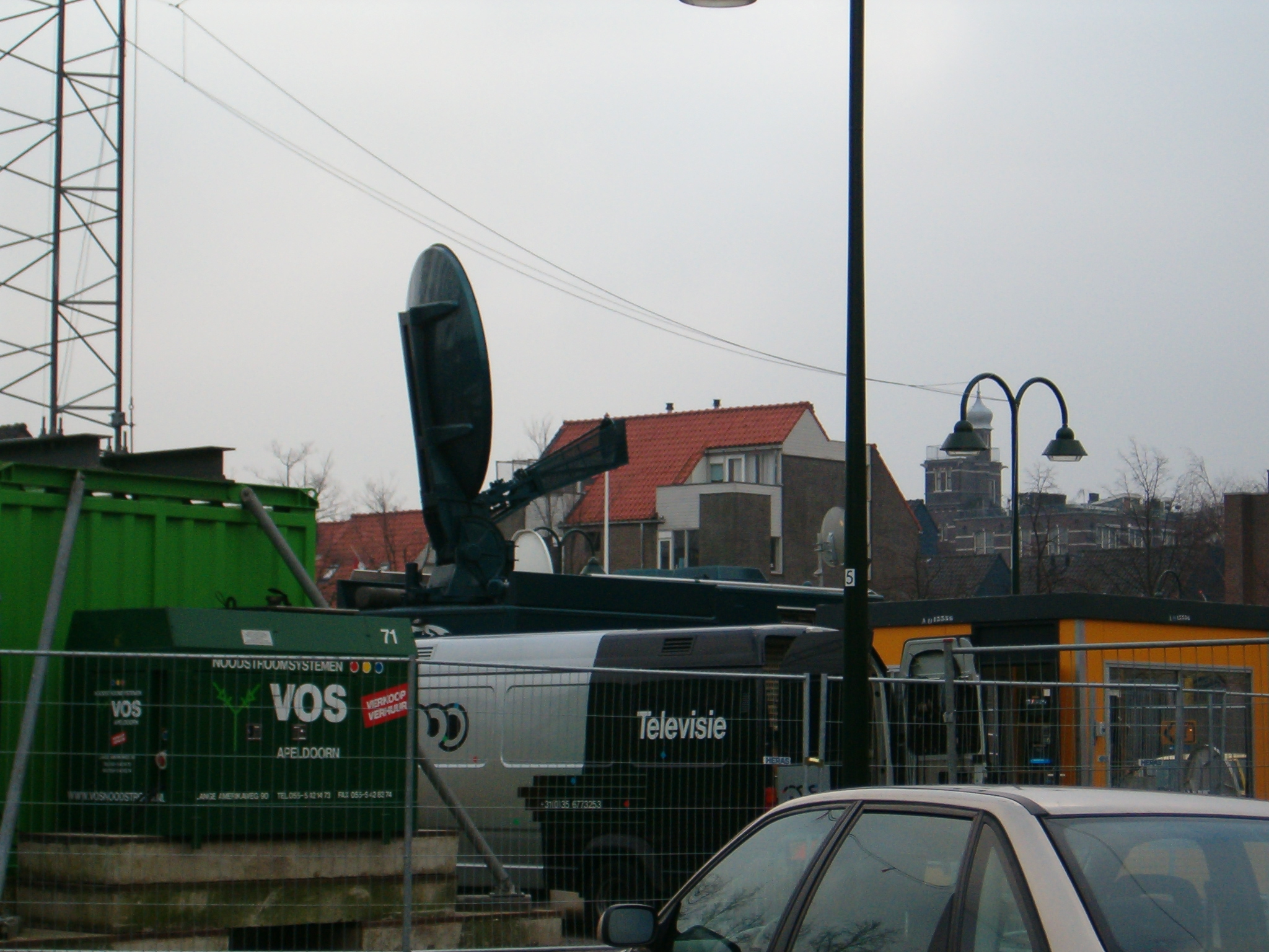 Self made picture in Delft.